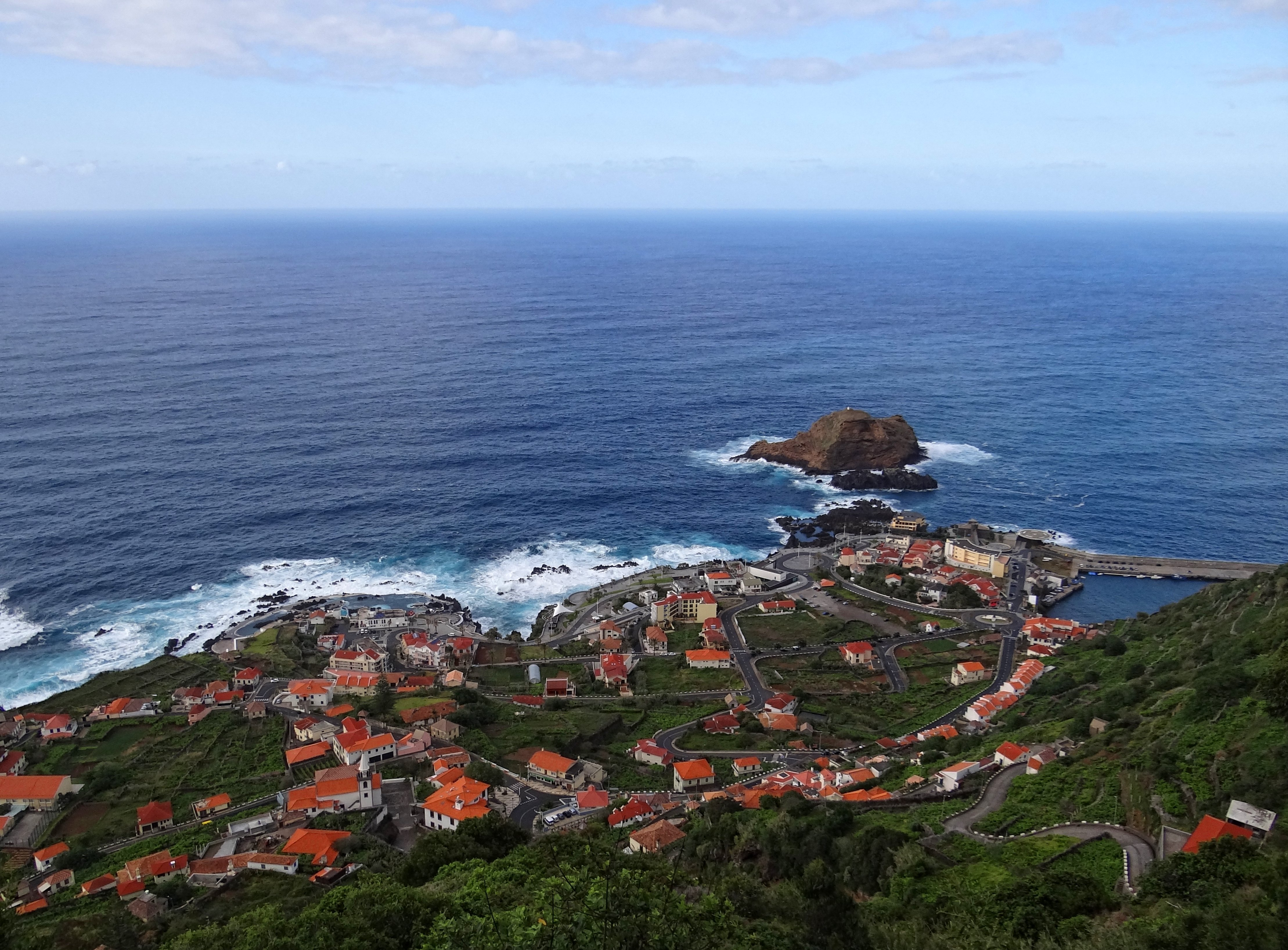 The center of Porto Moniz photographed from a viewpoint next to the road entering the town from the south and above.